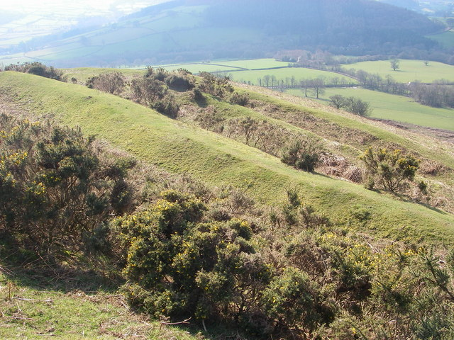 Pen-y-crug hillfort The impressive Iron Age hillfort at Pen-y-crug just west of Brecon provides commanding views over the surrounding countryside. It was defended by multiple banks and ditches as seen here.